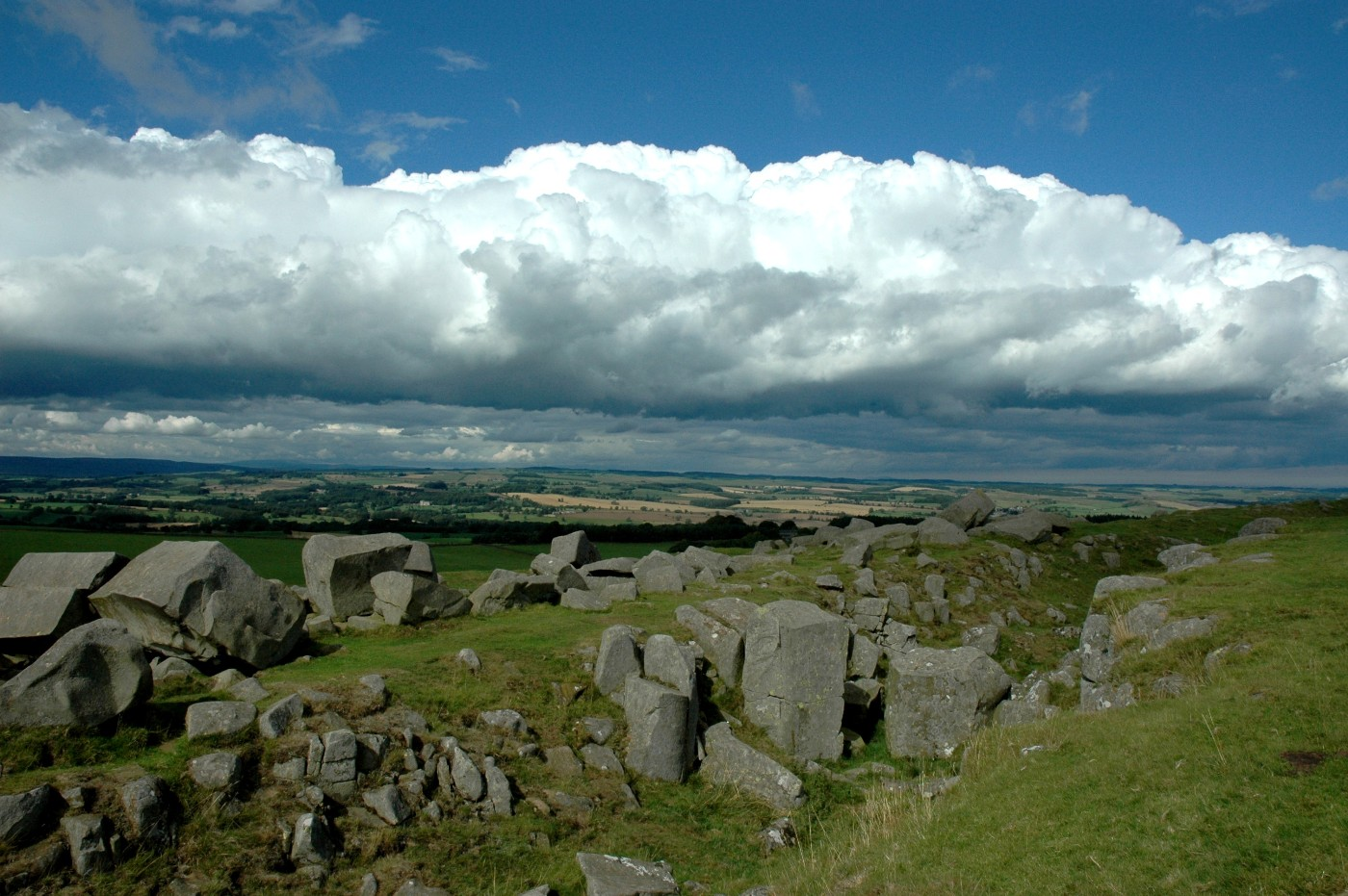 Hadrian's Wall, Northumberland National Park, United Kingdom